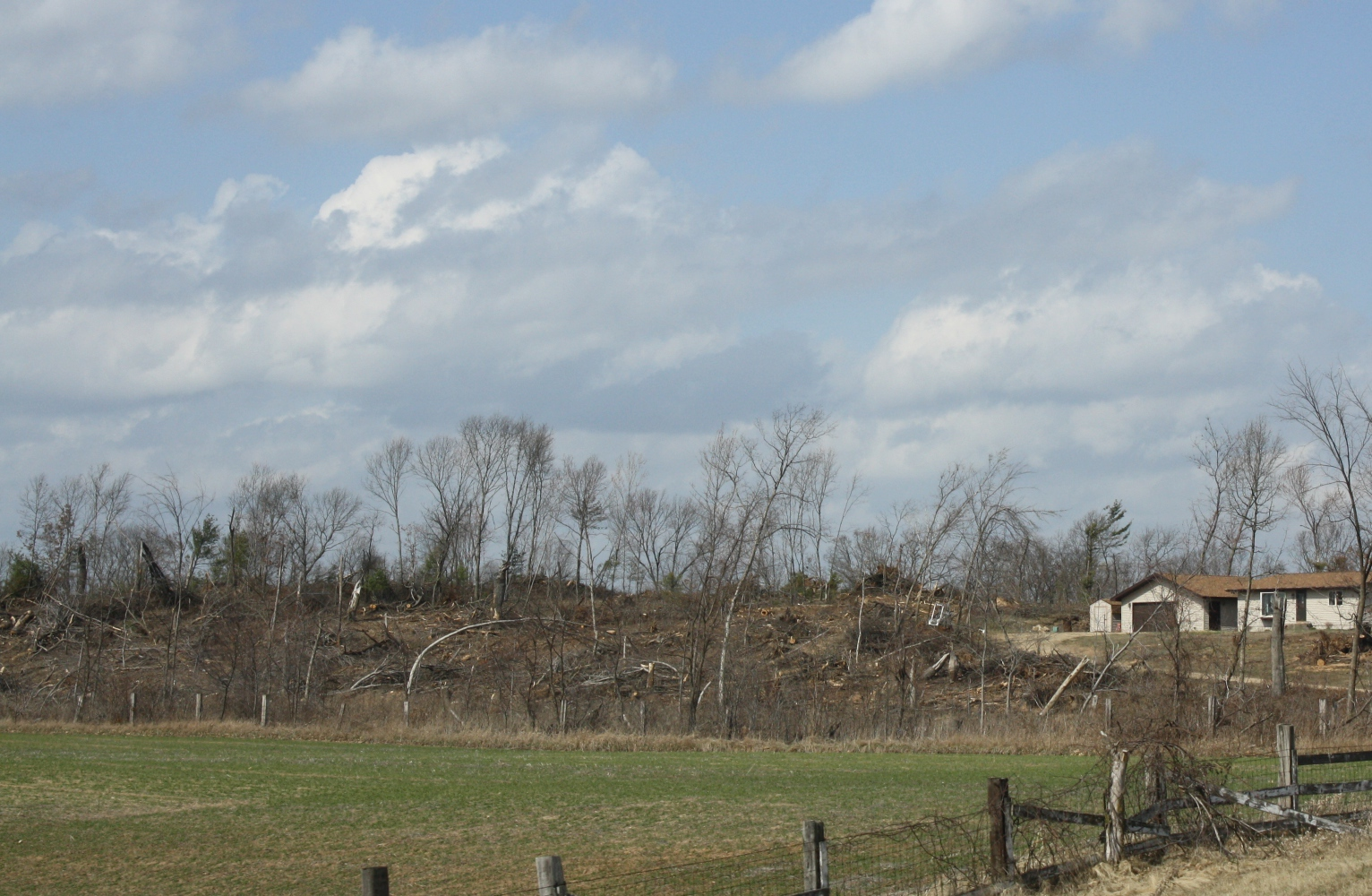 April 10, 2011 EF2 tornado damage from Cottonville are, photographed almost 1 year later along Wisconsin Highway 21 just north of Arkdale, Wisconsin.